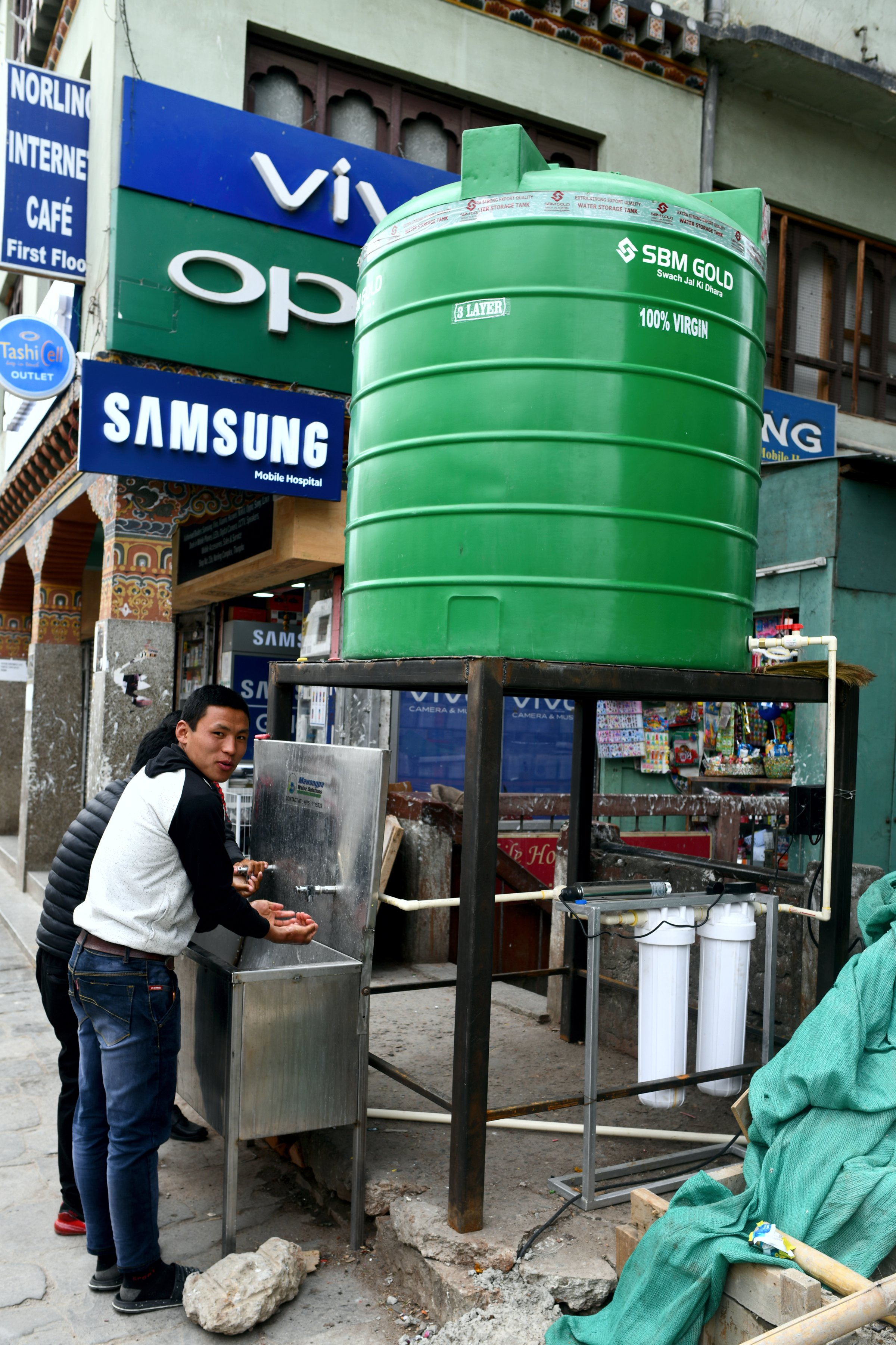 Hand washing station to prevent coronavirus in Thimphu